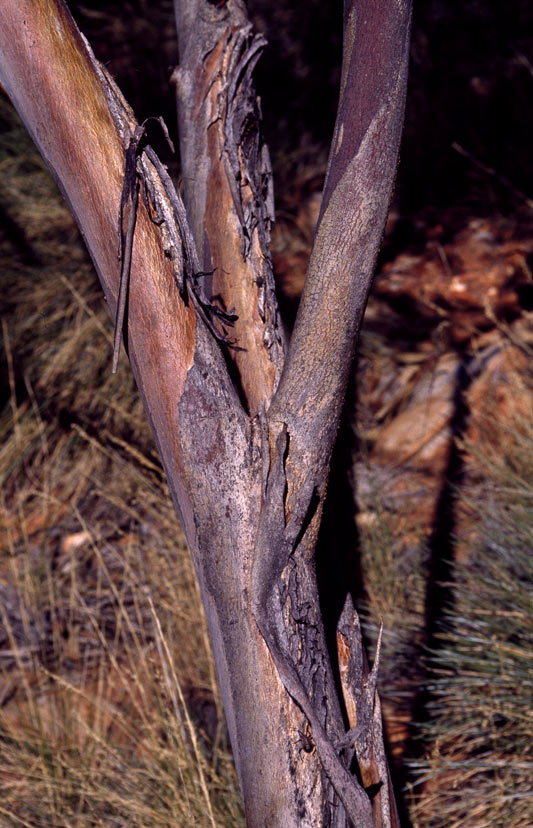 Bark of Eucalyptus gillenii, taken at Petermann Ranges, summit of Mt Deering, Western Australia